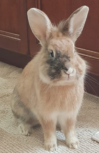 Specimen of rabbit (Oryctolagus cuniculus) found in Scandiano